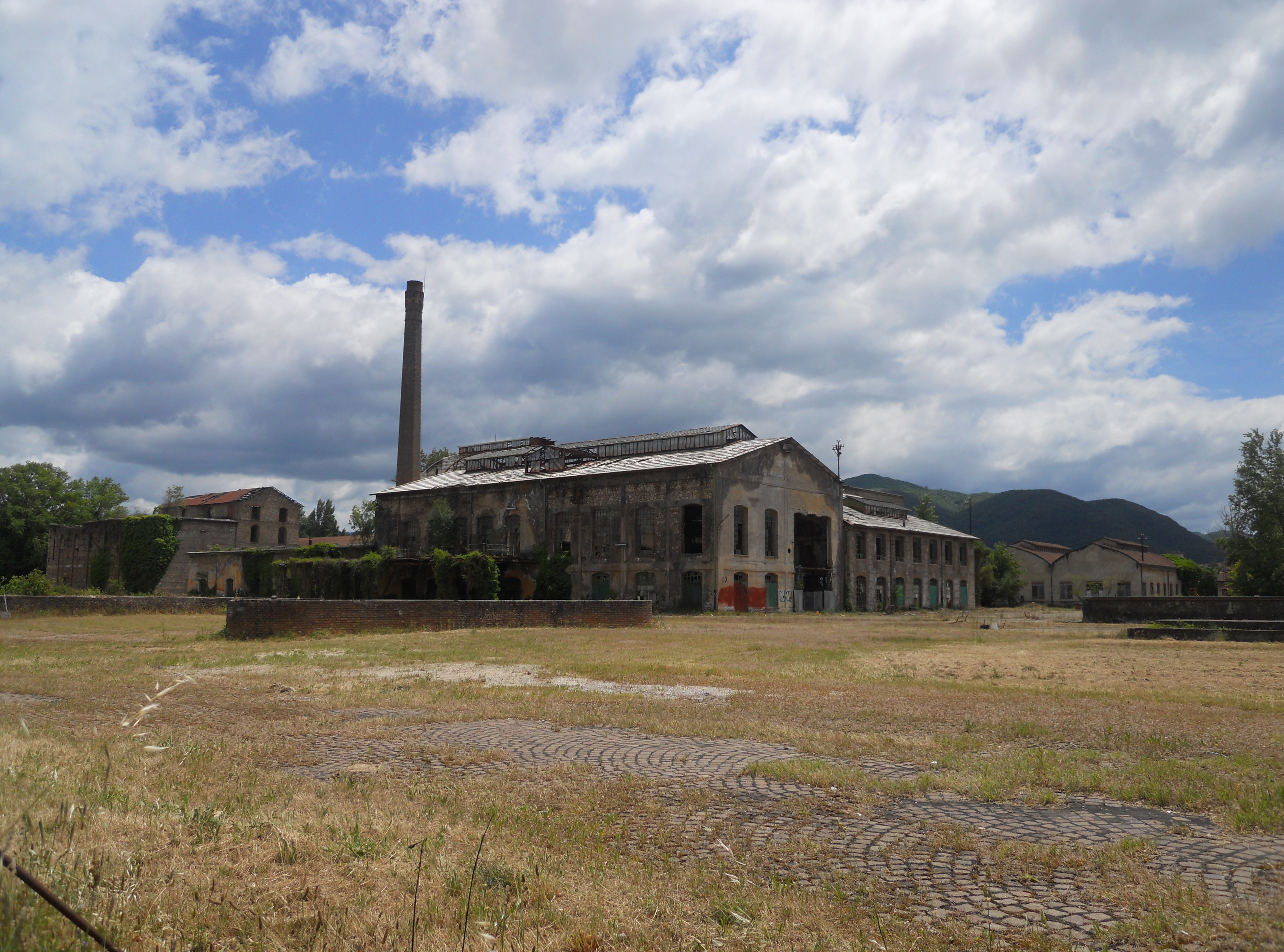 The former sugar refinery of Rieti (Italy), built in 1873 and closed in 1973, as seen from Micioccoli street